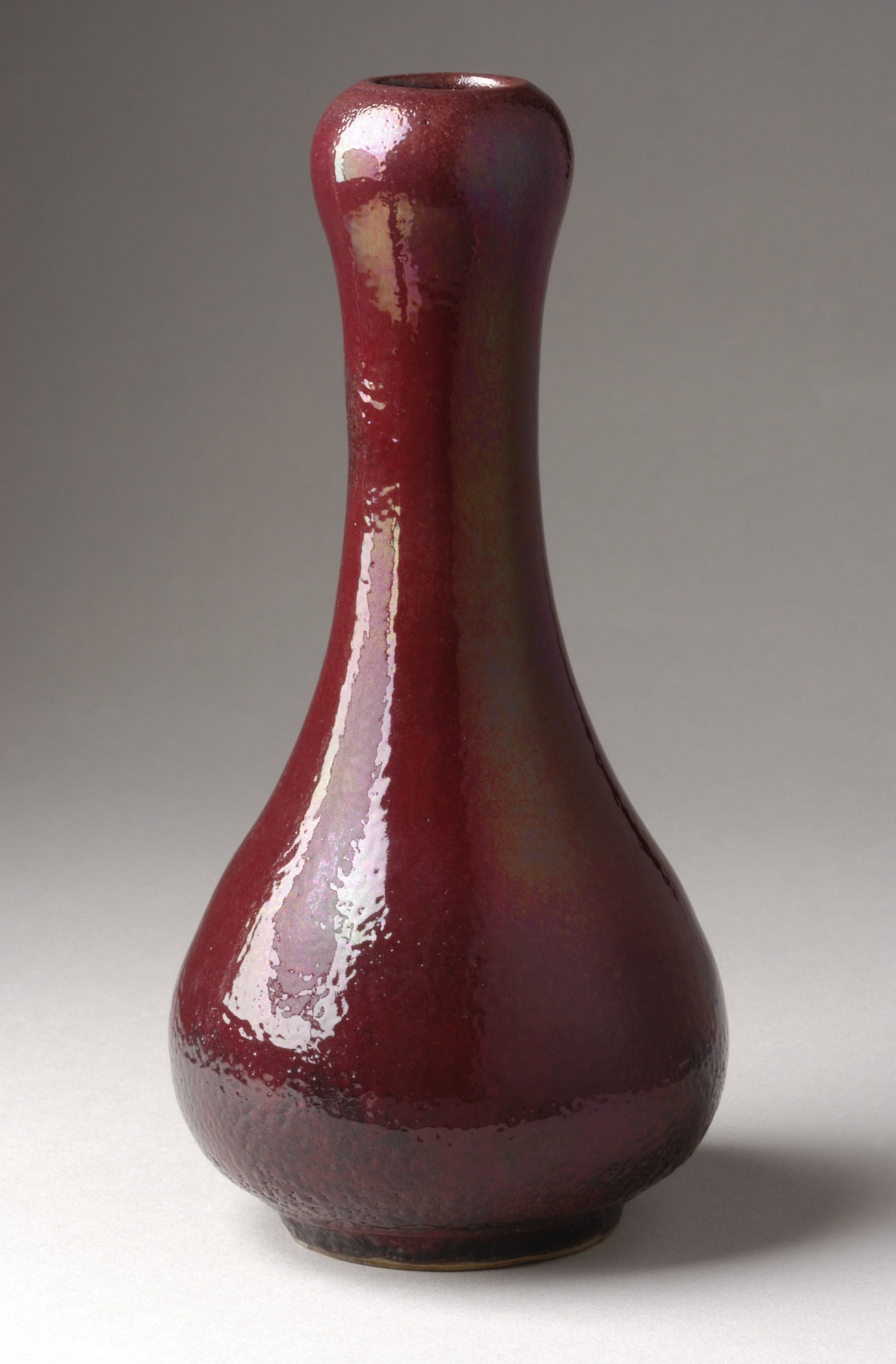 United States, 1884-89 Furnishings; Accessories Stoneware Gift of Max Palevsky and Jodie Evans (M.91.375.25) Decorative Arts and Design